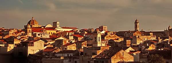 Sassari, historic Old Town